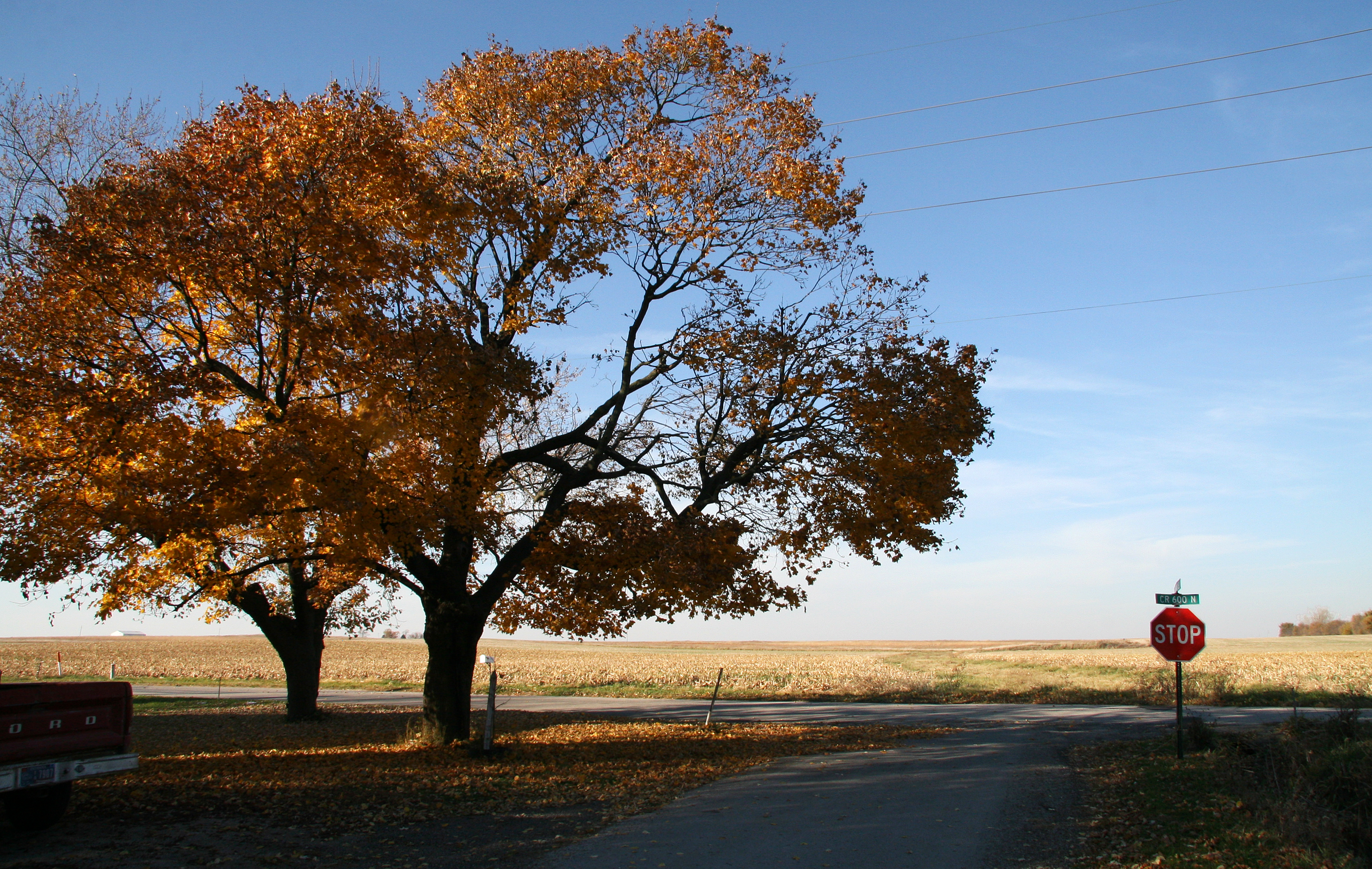 Looking north from the small town of Wadena, Indiana, across Benton County Road 600N and toward harvested fields in Union Township.